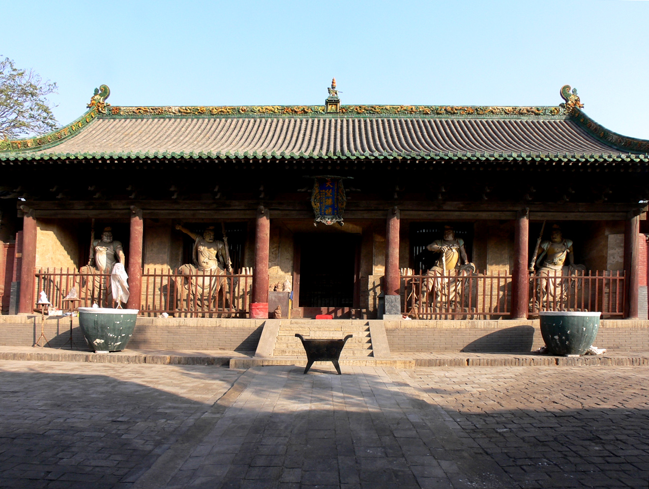 Indian Magic Hall of Shuanglin Temple